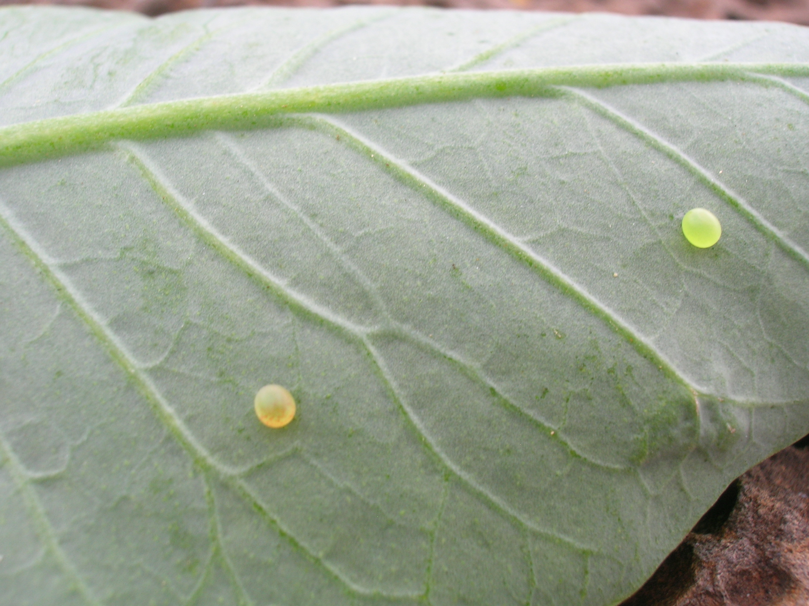 Nicotiana glauca (leaf with Manduca blackburni eggs). Location: Maui, Kahului Airport